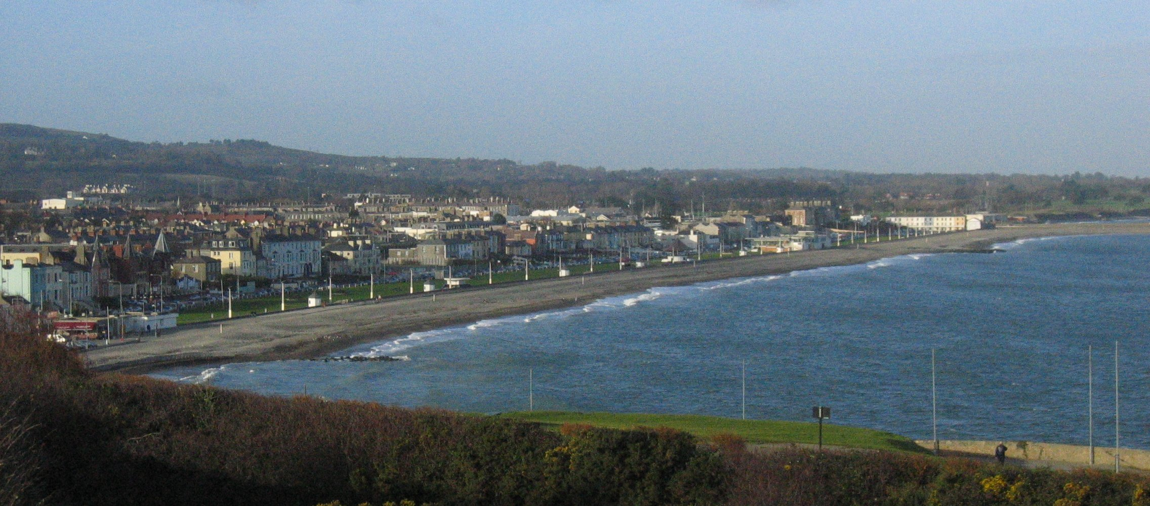 Bray, County Wicklow, Ireland. Photo by user:Tournesol